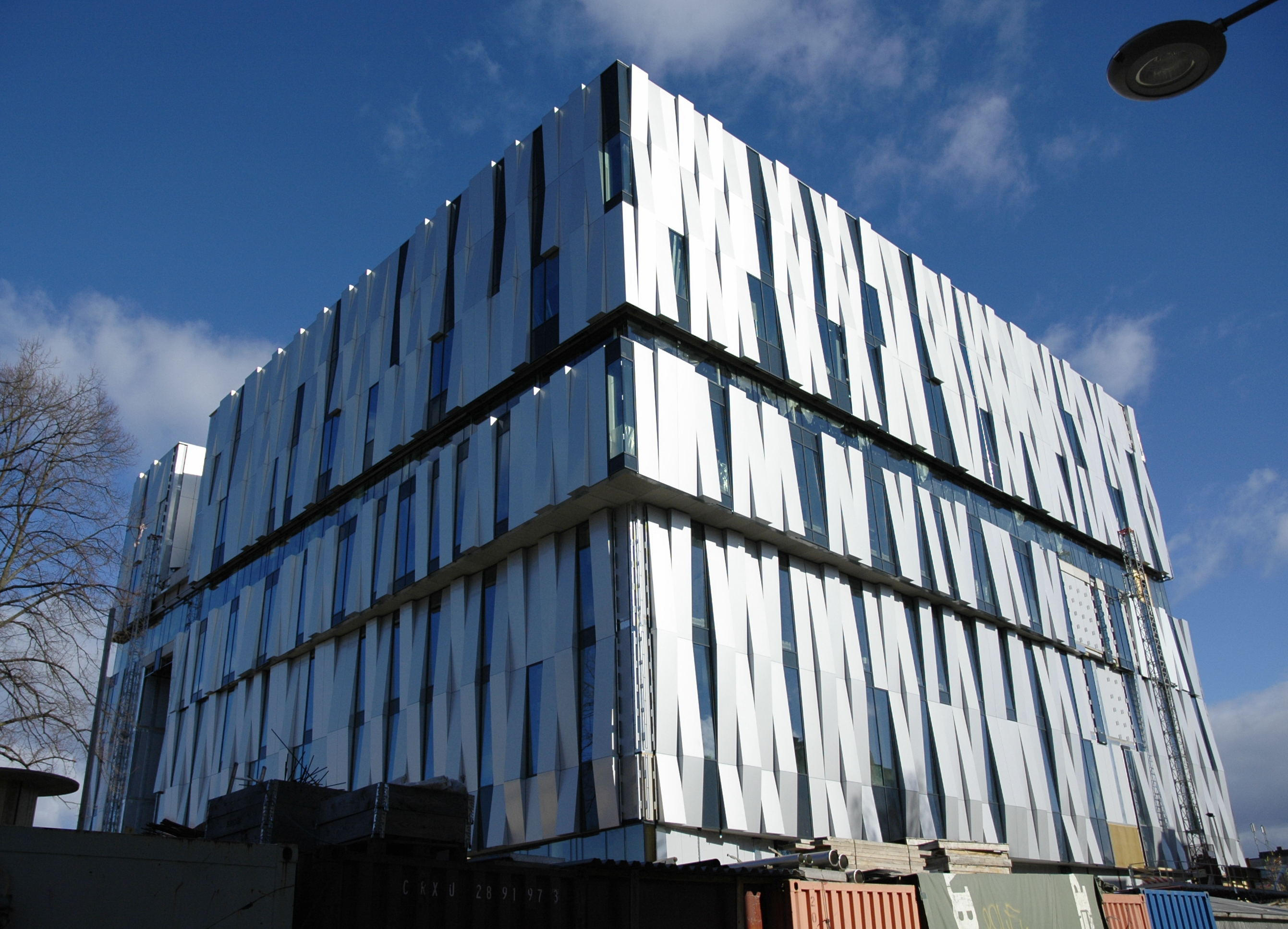 Photo of Konserthuset, Uppsala